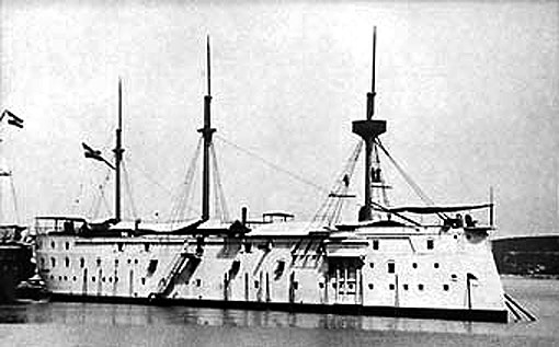 Frigate SMS Erzherzog Ferdinand Max.